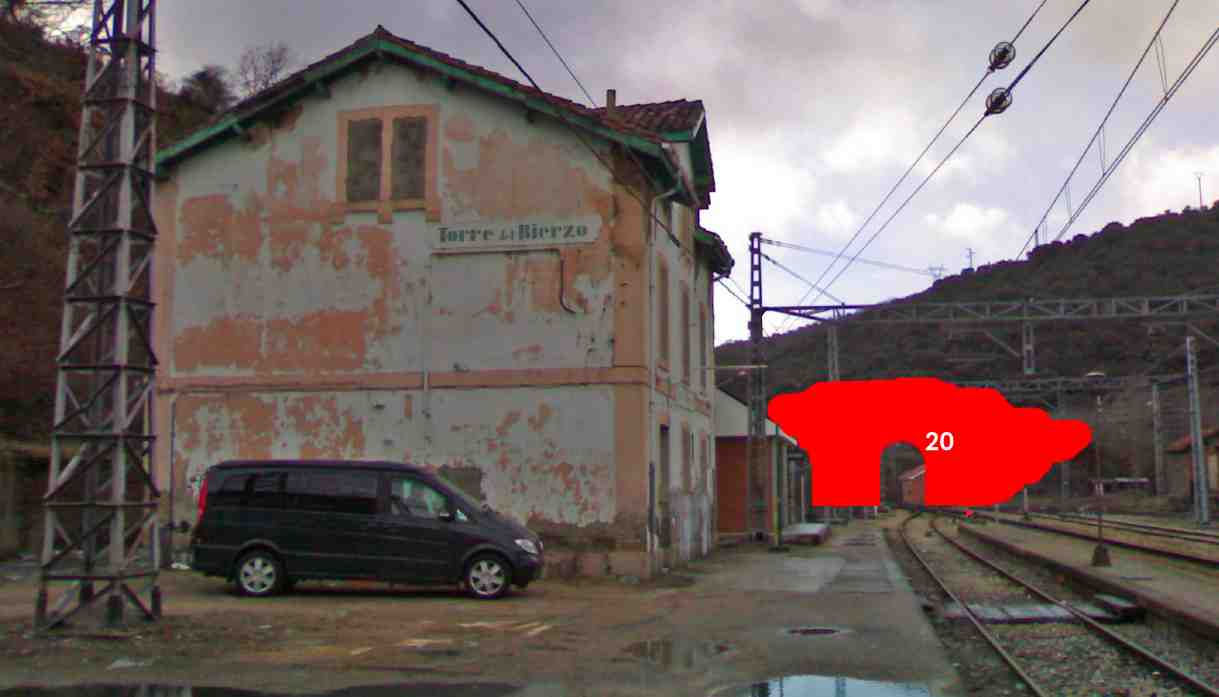 Disappear tunnel #20, Torre del Bierzo station (León)